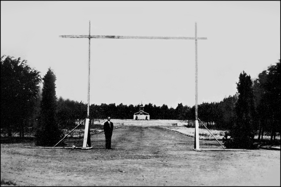 Architect A. Birzenieks sets the size of the arch. Brotherly cemetery. 1928.